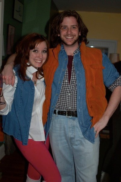 This is an image of the costumes from Back to the Future 2 as designed by Joanna Johnston